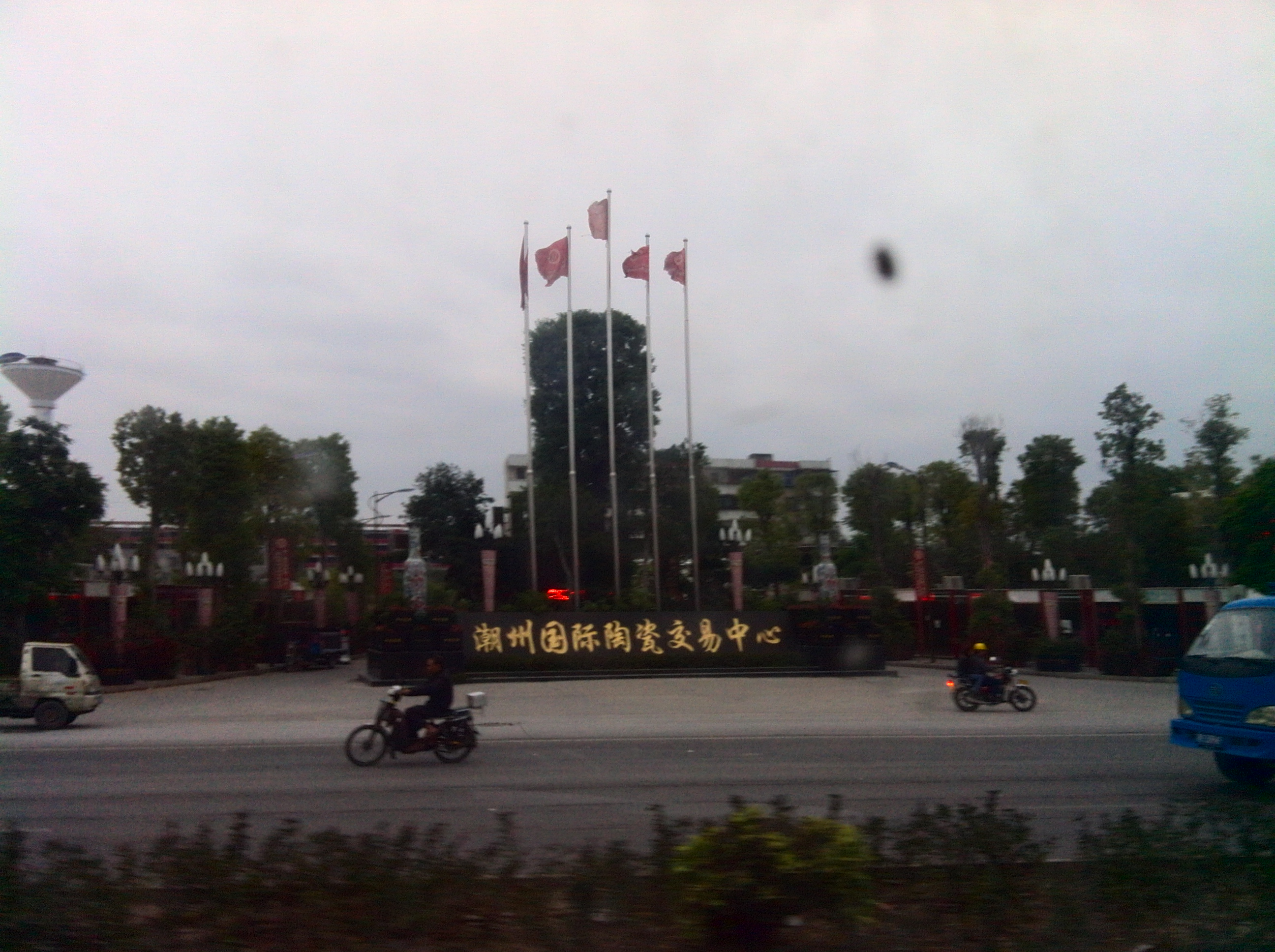 Chaozhou International Ceramics Trading Center, Located Xinfeng Road, Chaozhou City, Guangdong Province, China.